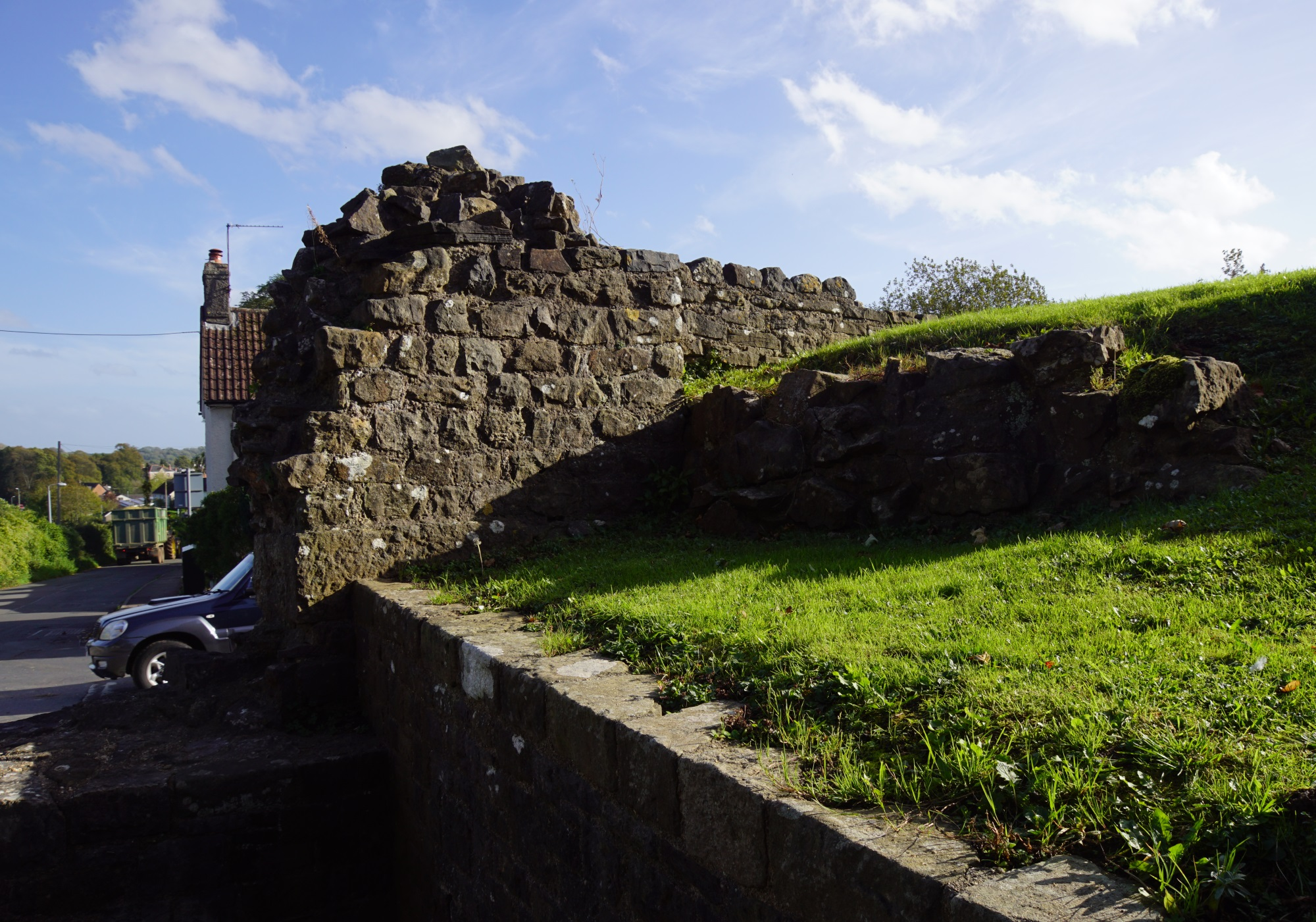 Caerwent, Wales. Eastgate of the Roman Town Venta Silurum.